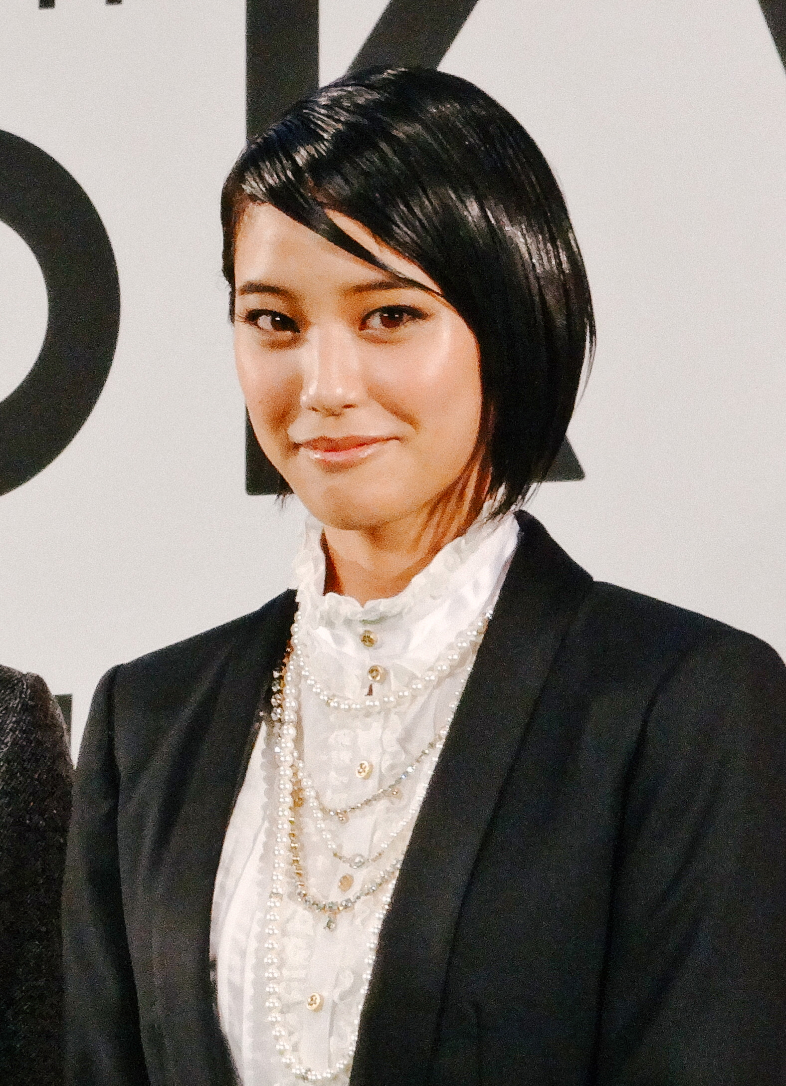 26th Tokyo International Film Festival - Yamazaki Hirona (山崎紘菜)